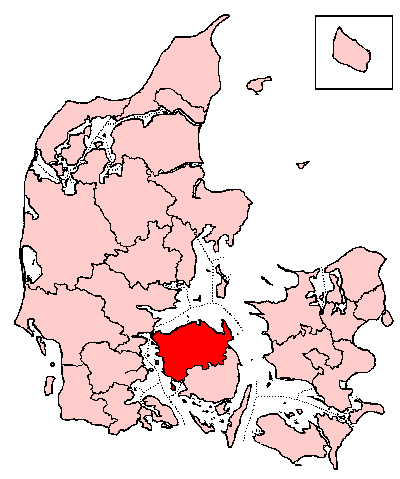 Map of Odense County 1793-1970